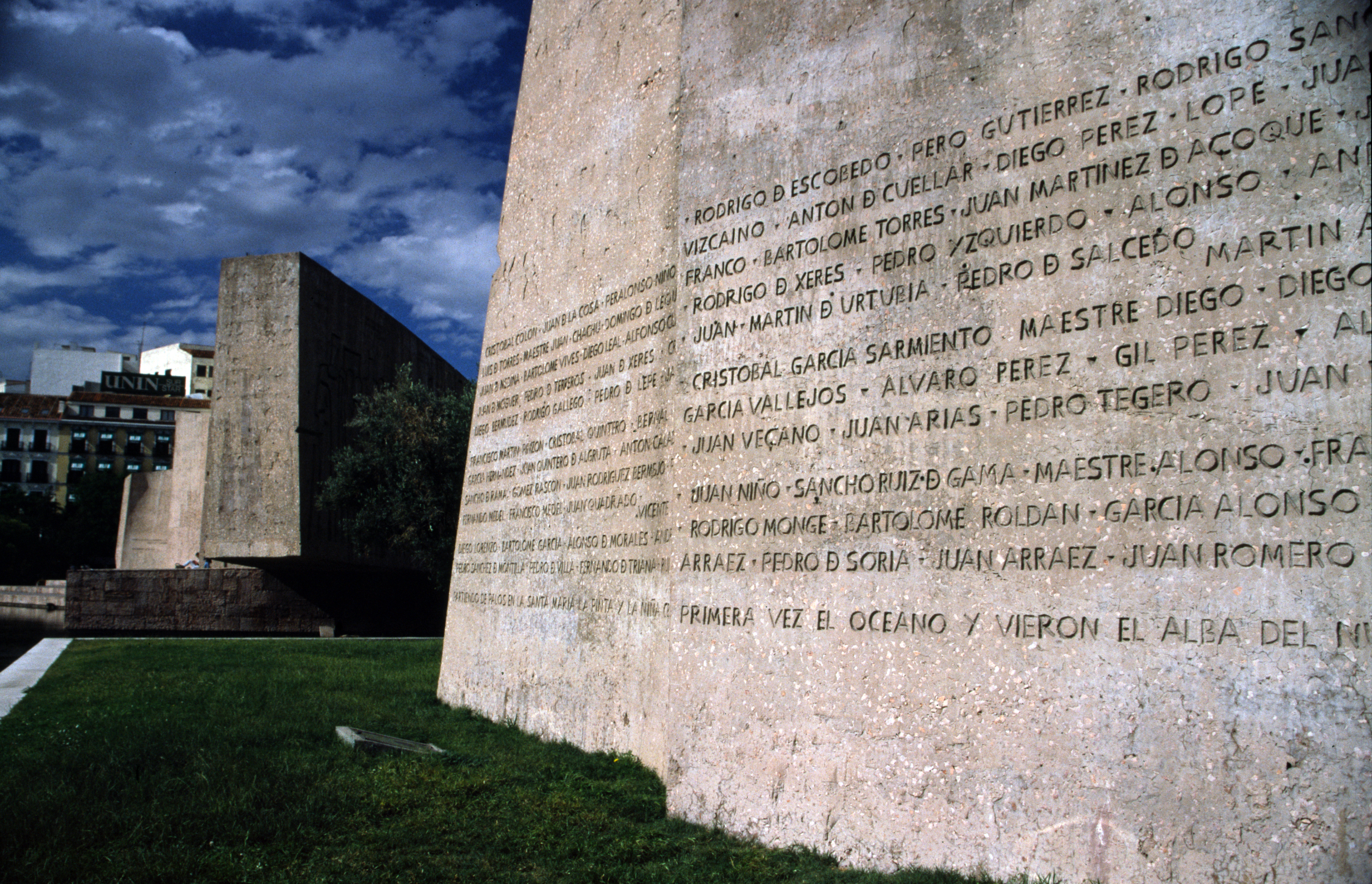 Detail of The Discovery, one of the three macro-sculptures of the Monument to the Discovery of America by Joaquín Vaquero Turcios (born 1933). Made of concrete. Inaugurated in 1977 at the Gardens of Discovery in Plaza de Colón ("Columbus Square"), Madrid (Spain). In the background, The Genesis.